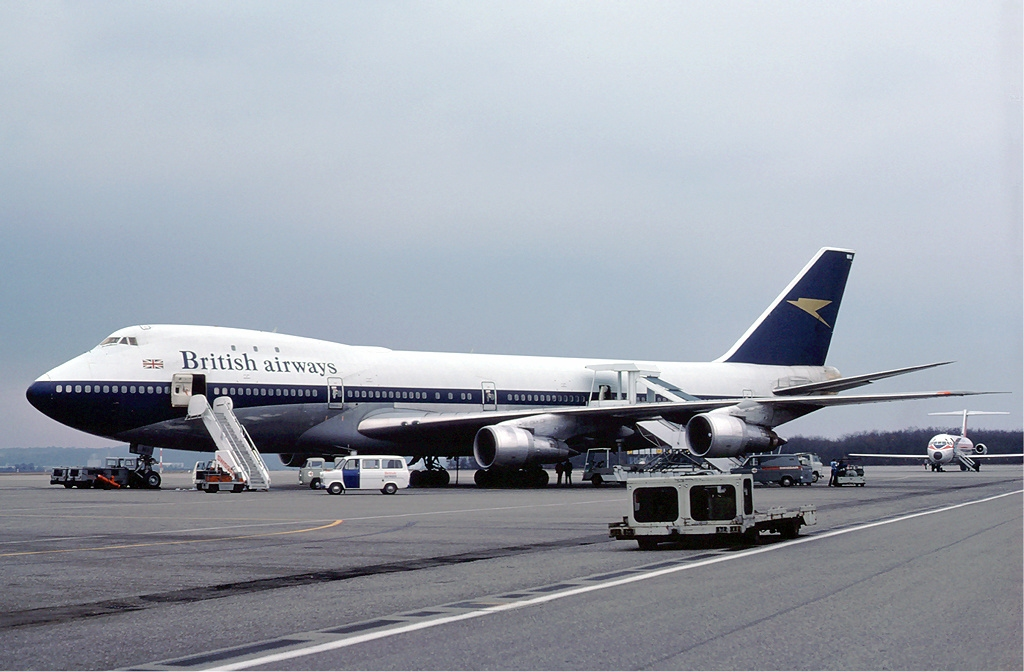 British Airways Boeing 747-100 in basic BOAC livery